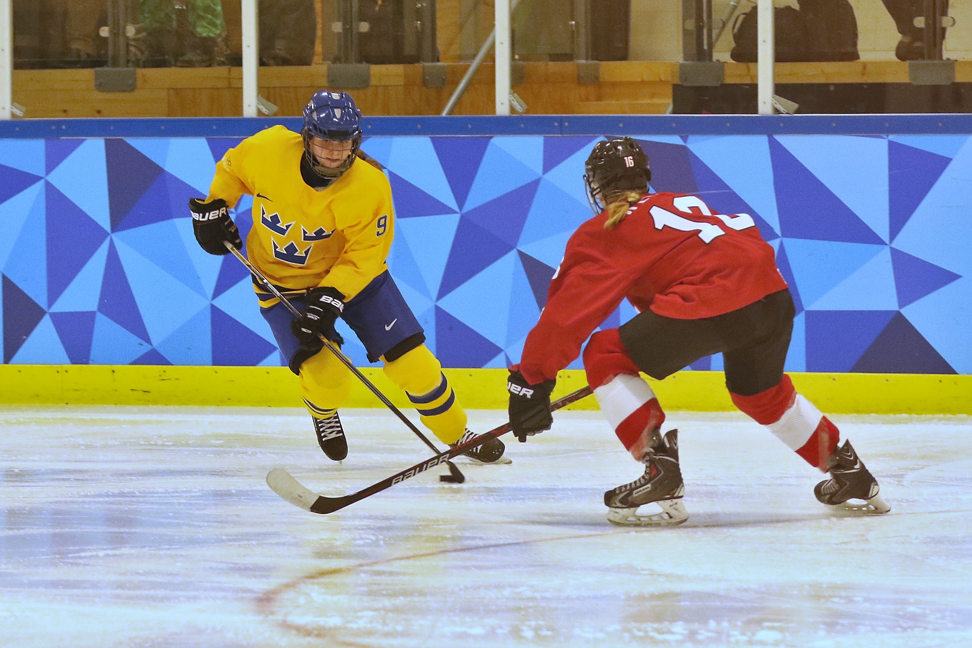 Lillehammer 2016 - Ice hockey SUI-SWE - Stefanie Wetli (in red) v. Josefin Bouveng (in yellow)